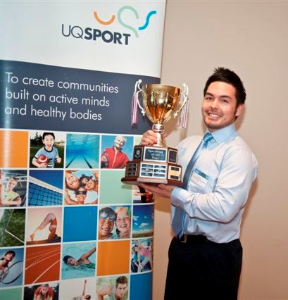 UQ Trophy